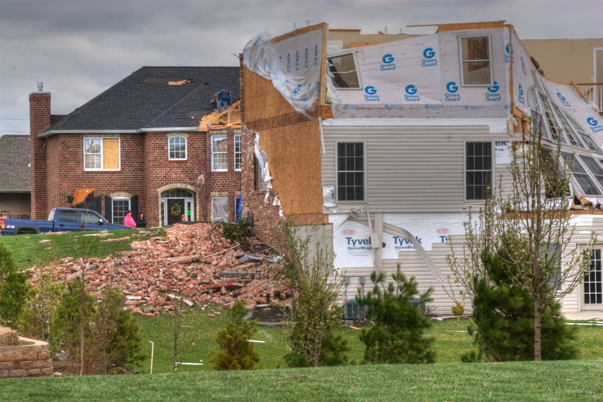 April 2, 2006 Tornado Outbreak, O'Fallon, Illinois, April 2, 2006. House damaged by a tornado, debris from this house damaged neighboring houses. The insurance carrier declared this home a total loss. Home of George and Ellen Hall.